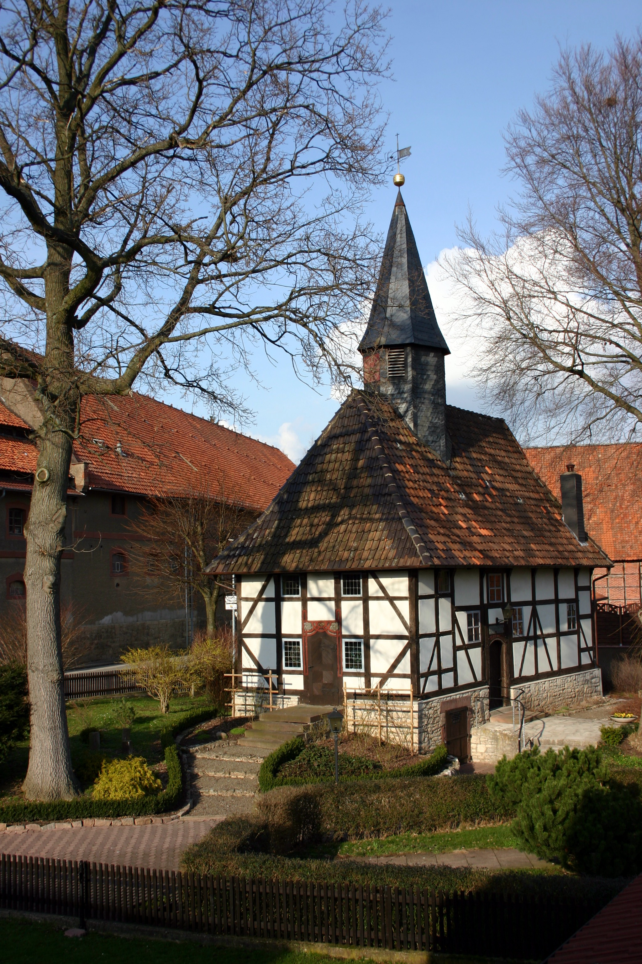 Little church in the village Hachenhausen, Germany